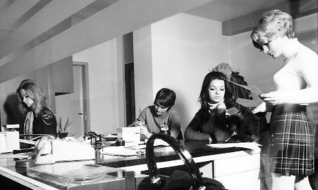 Randstad consultants at work